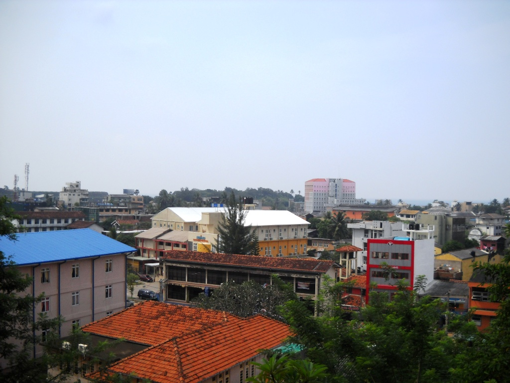 Part of the city